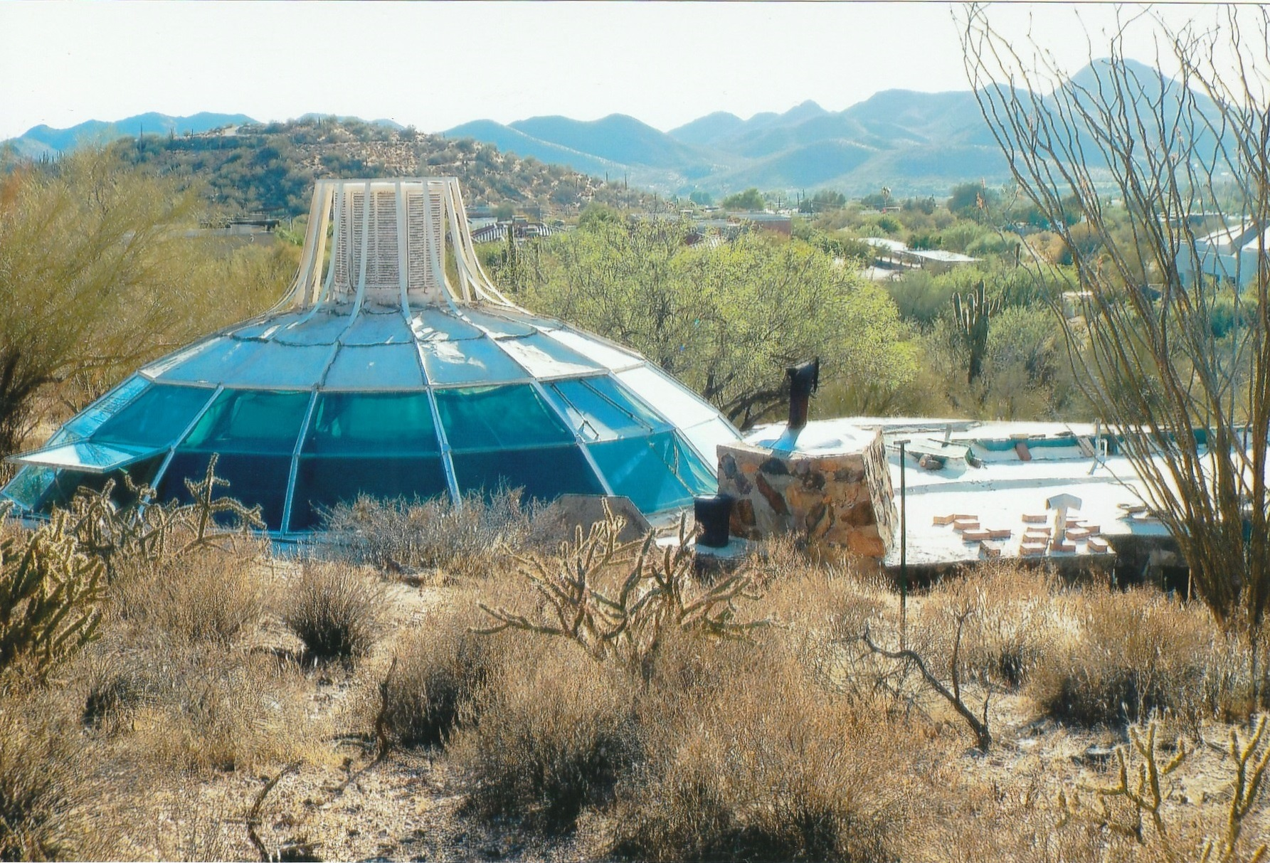 On March 15, 2018, "The Dome in the Desert" a.k.a. "The Dome" was listed in the National Register of Historic Places, reference #100002208. The Dome was built in 1949, and is located at 7199 E. Grapevine Road. in Cave Creek, Az.